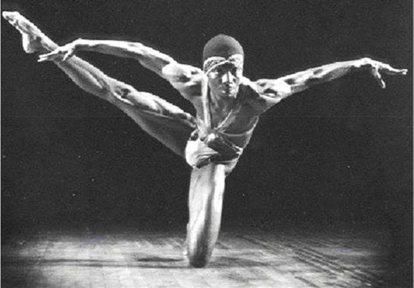 American dancer and choreographer Leni Wylliams (1961 – 1996) in Autumn 1983. In-studio photo-shoot by David Fullard in New York, NY, depicting Leni Wyilliams performing ORBWEB, choreographed by Eleo Pomare